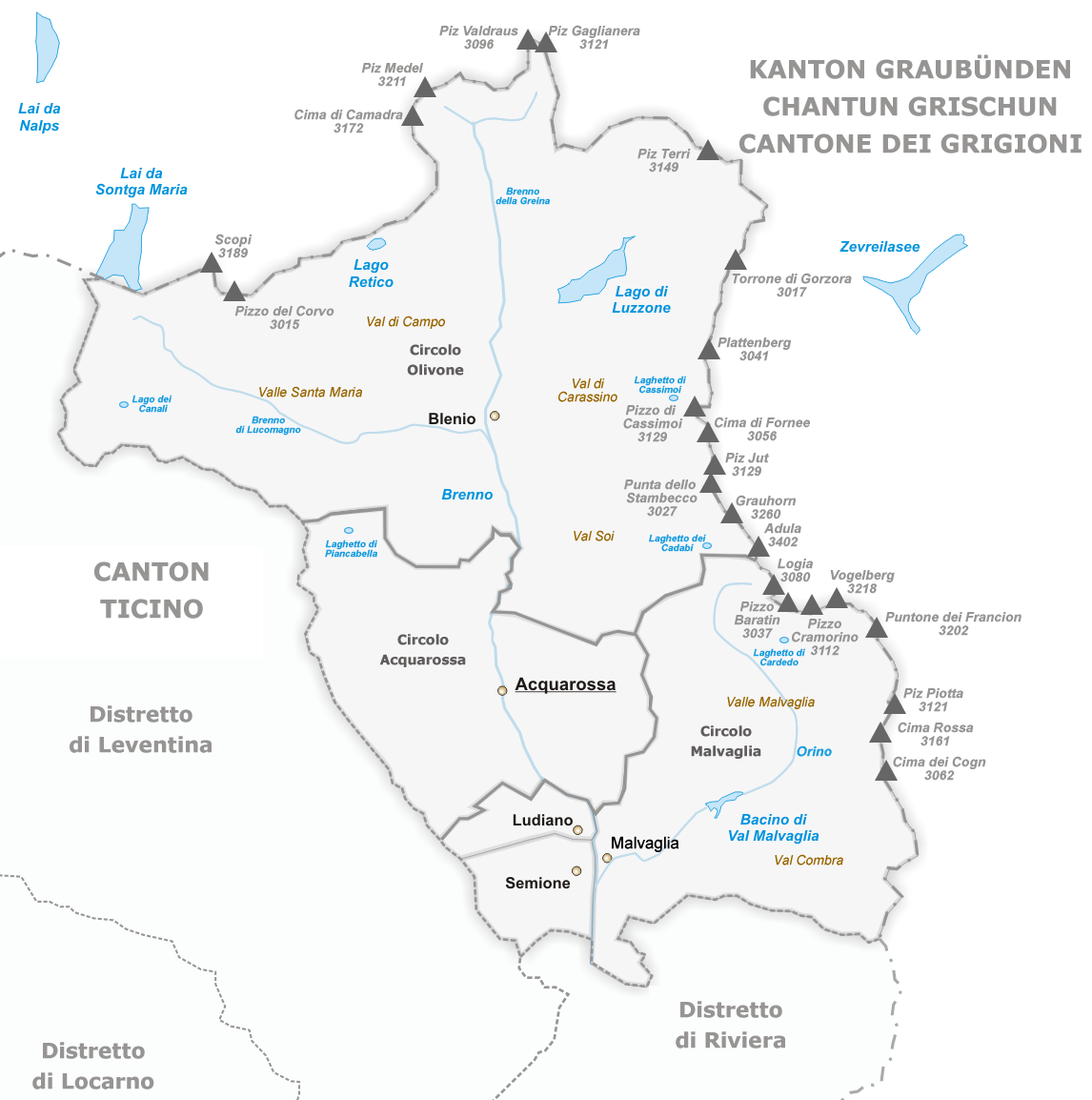 District of Blenio: Mountains, lakes and rivers